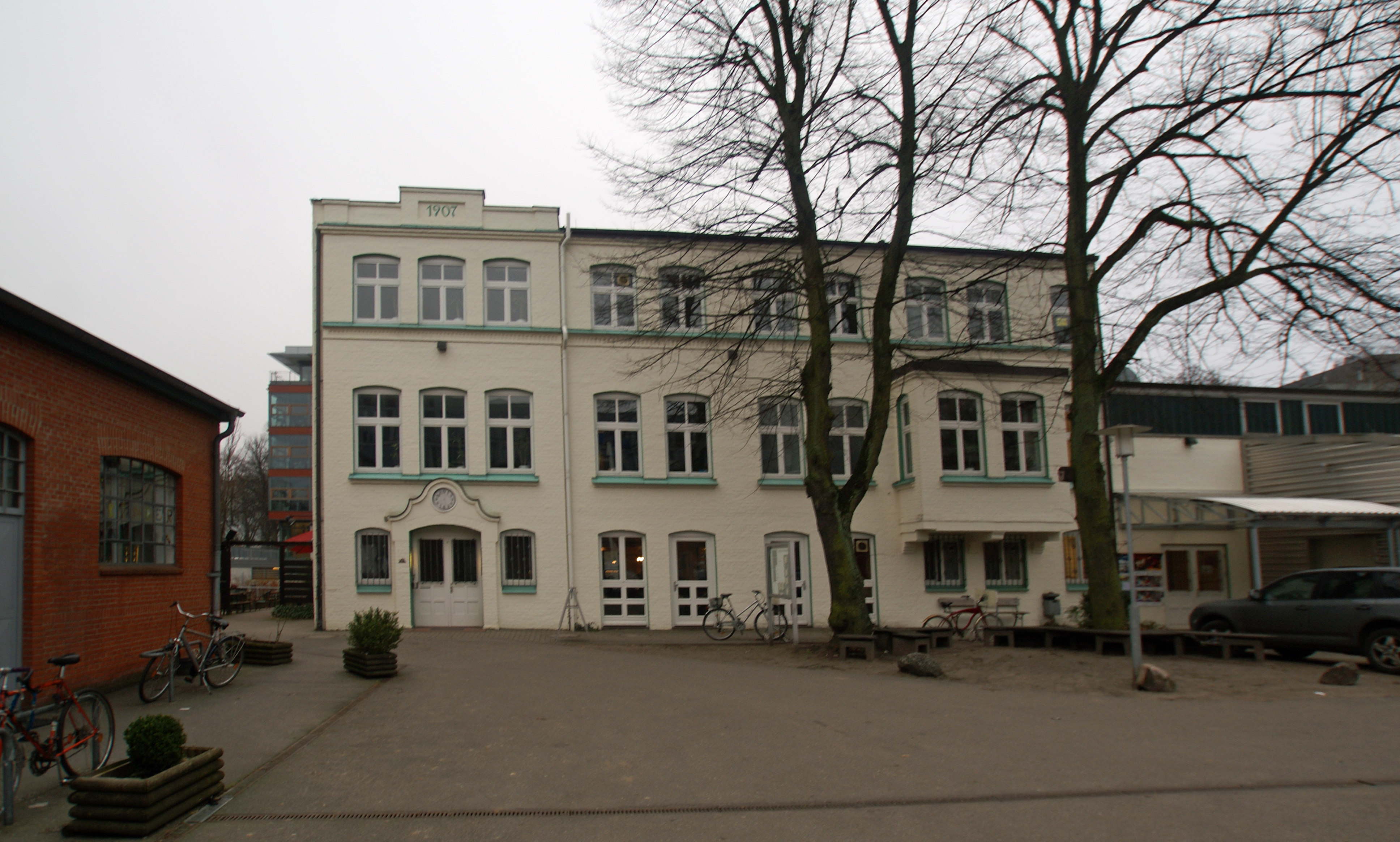 Hamburg (Winterhude), Germany: Former Schülke & Mayr factory, actual cultural hal at the Goldbekkanal